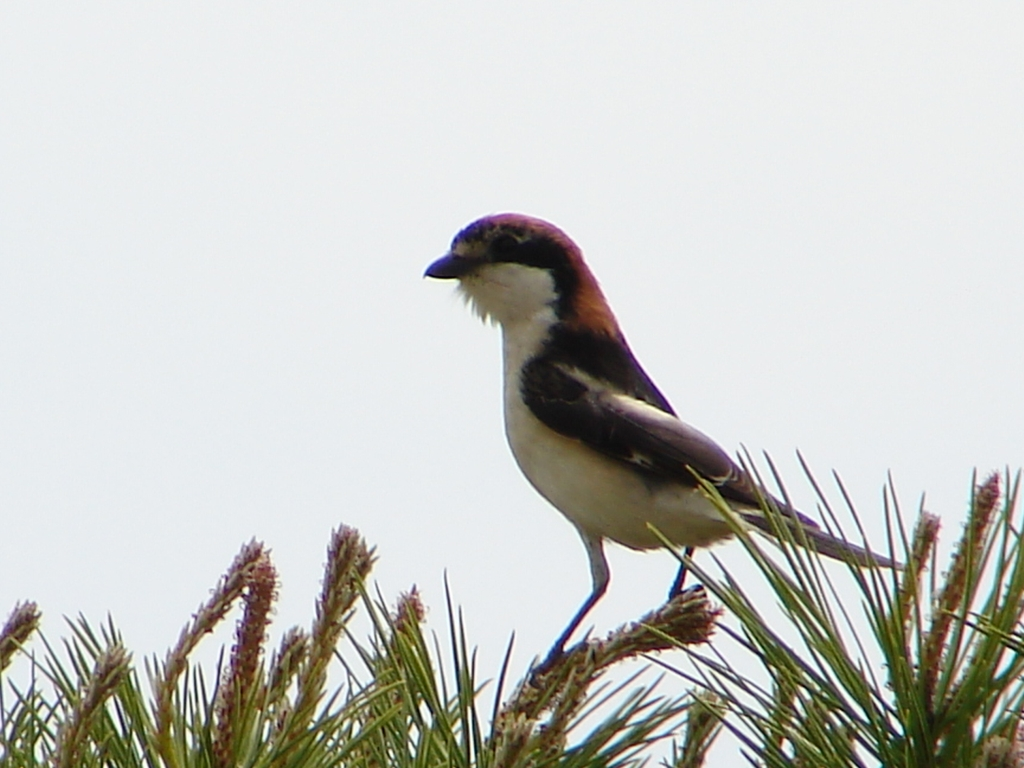 Woodchat Shrike. Taken at Quinta do Lago, Algarve